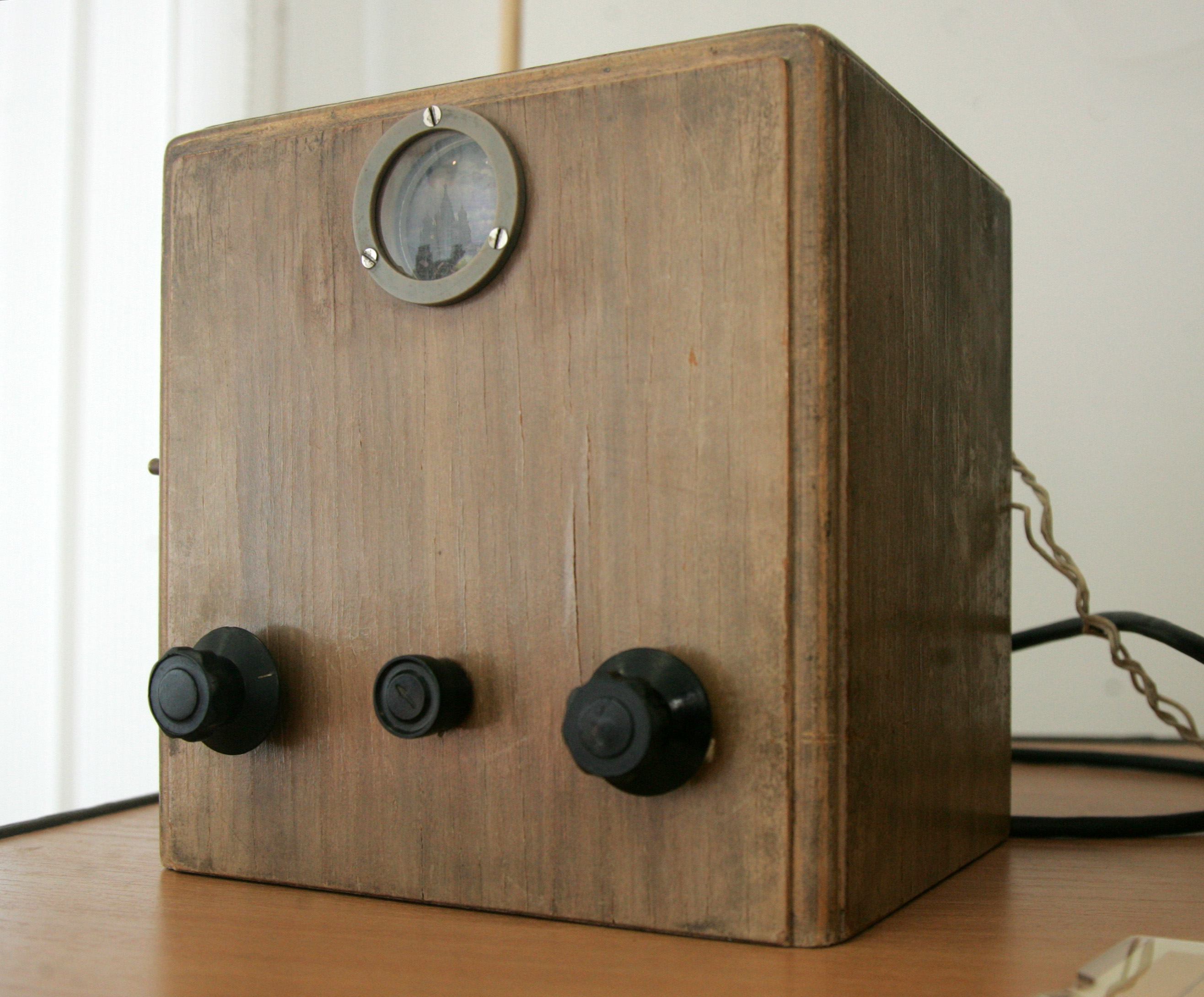 First soviet TV-set "B-2" for mechanical scanning television system. Exhibition of Nizhny Novgorod Radio laboratory Museum.